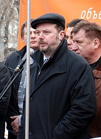 Russian journalist Vladimir A. Kara-Murza at Solidarnost meeting